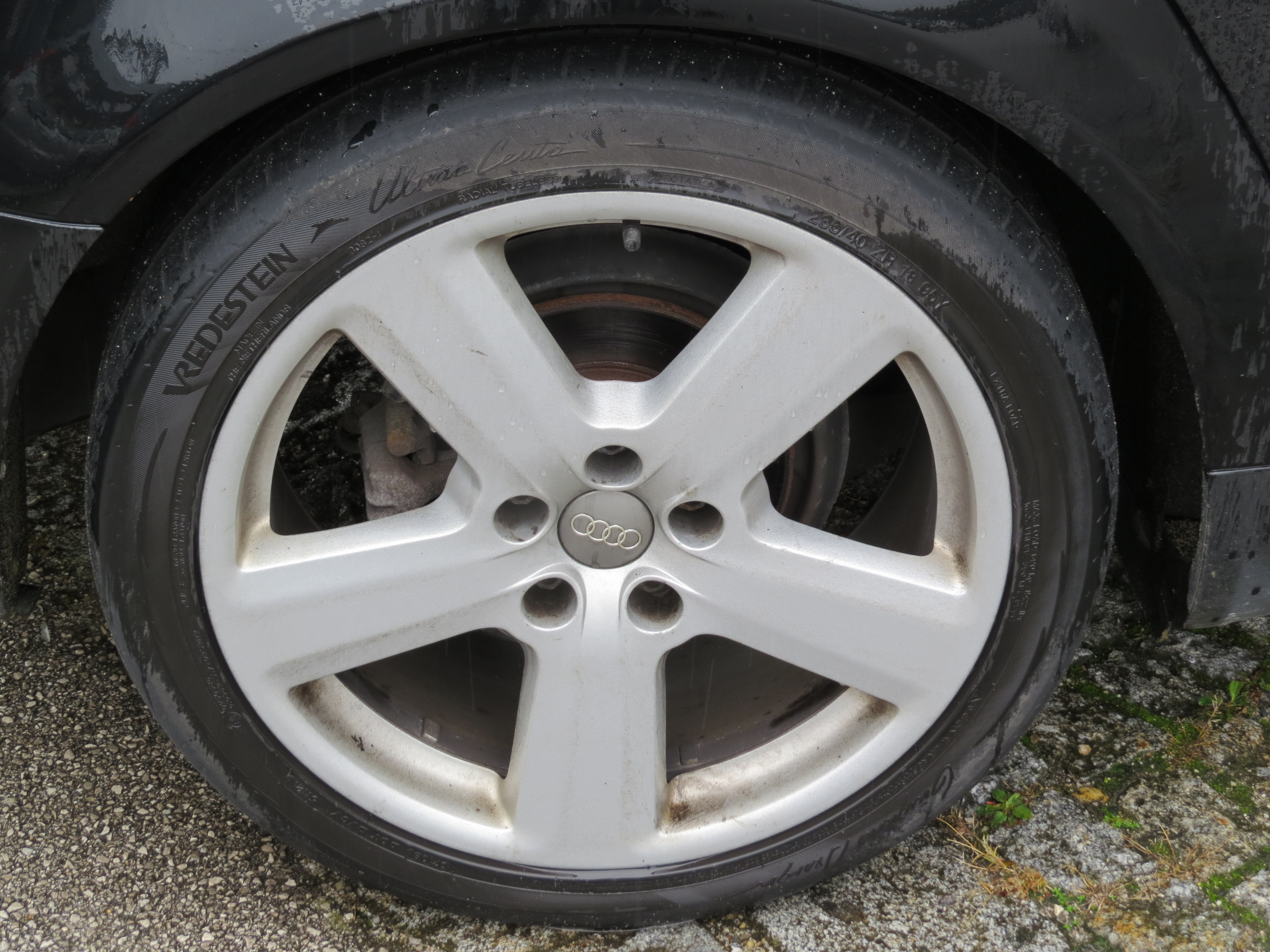 Vredestein Ultrac Cento 235/40 ZR 18 tire at Bahnhof Melk